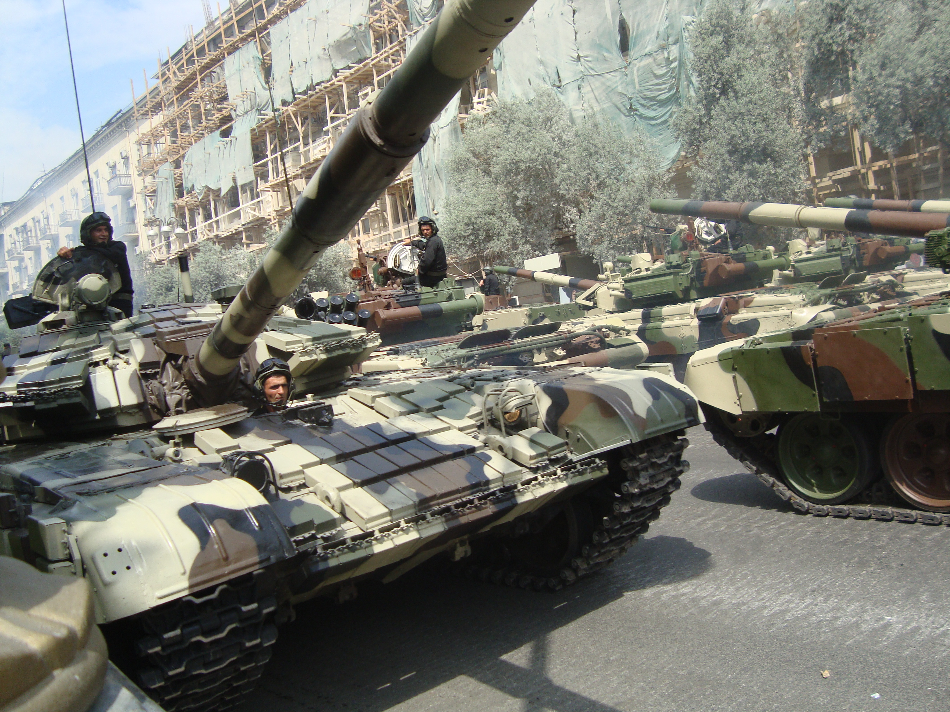 Azeri T-72